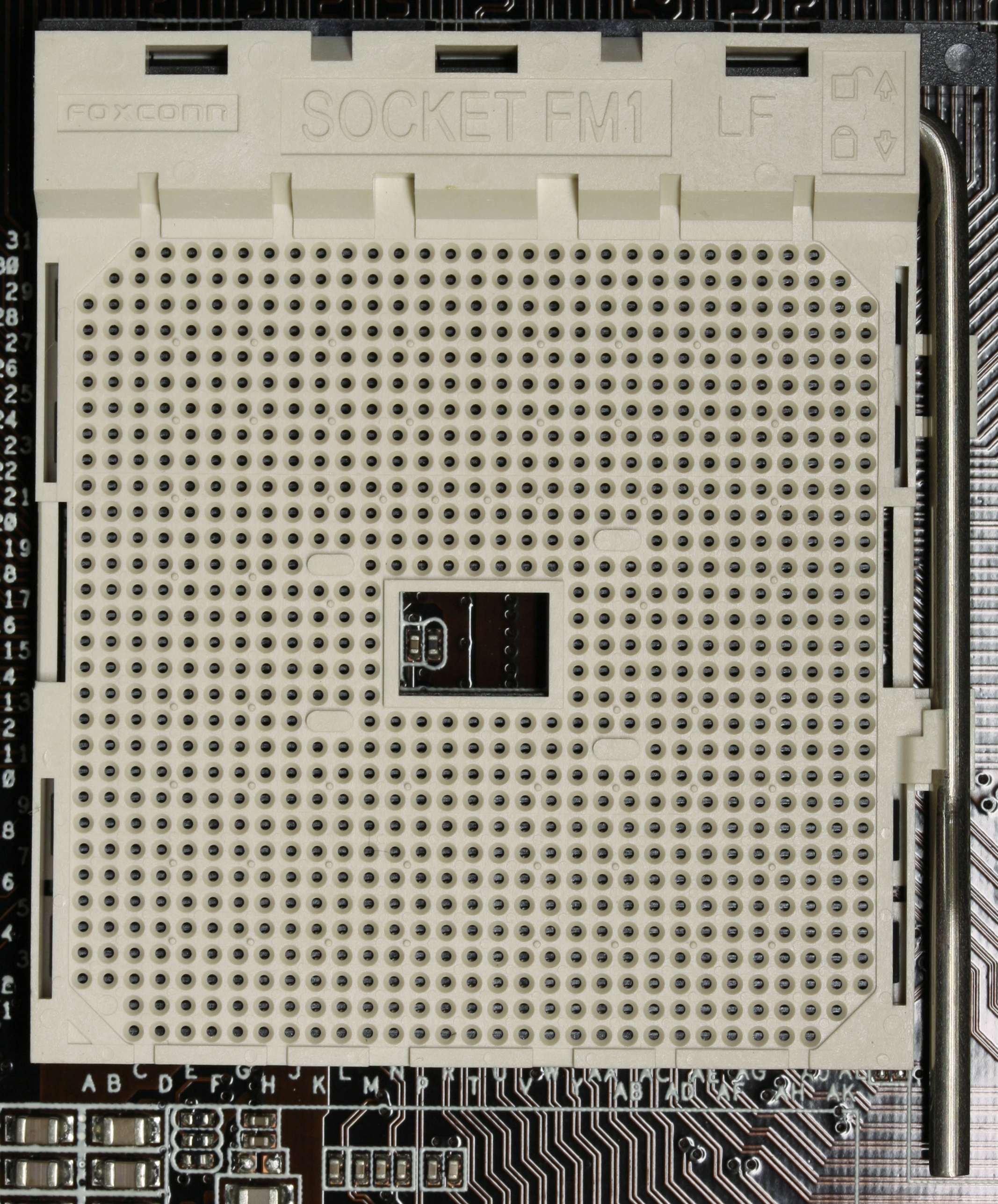 A closed AMD FM1 CPU socket